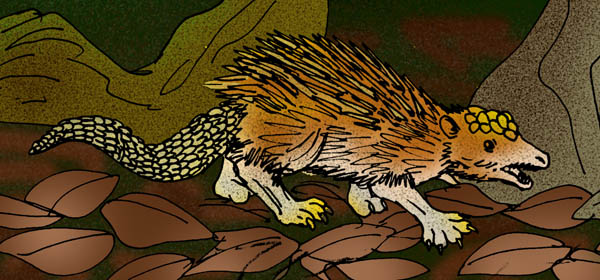 The primitive hedgehog Pholidocercus hassiacus, of Mid Eocene Messel, Germany. (C) Stanton F. Fink